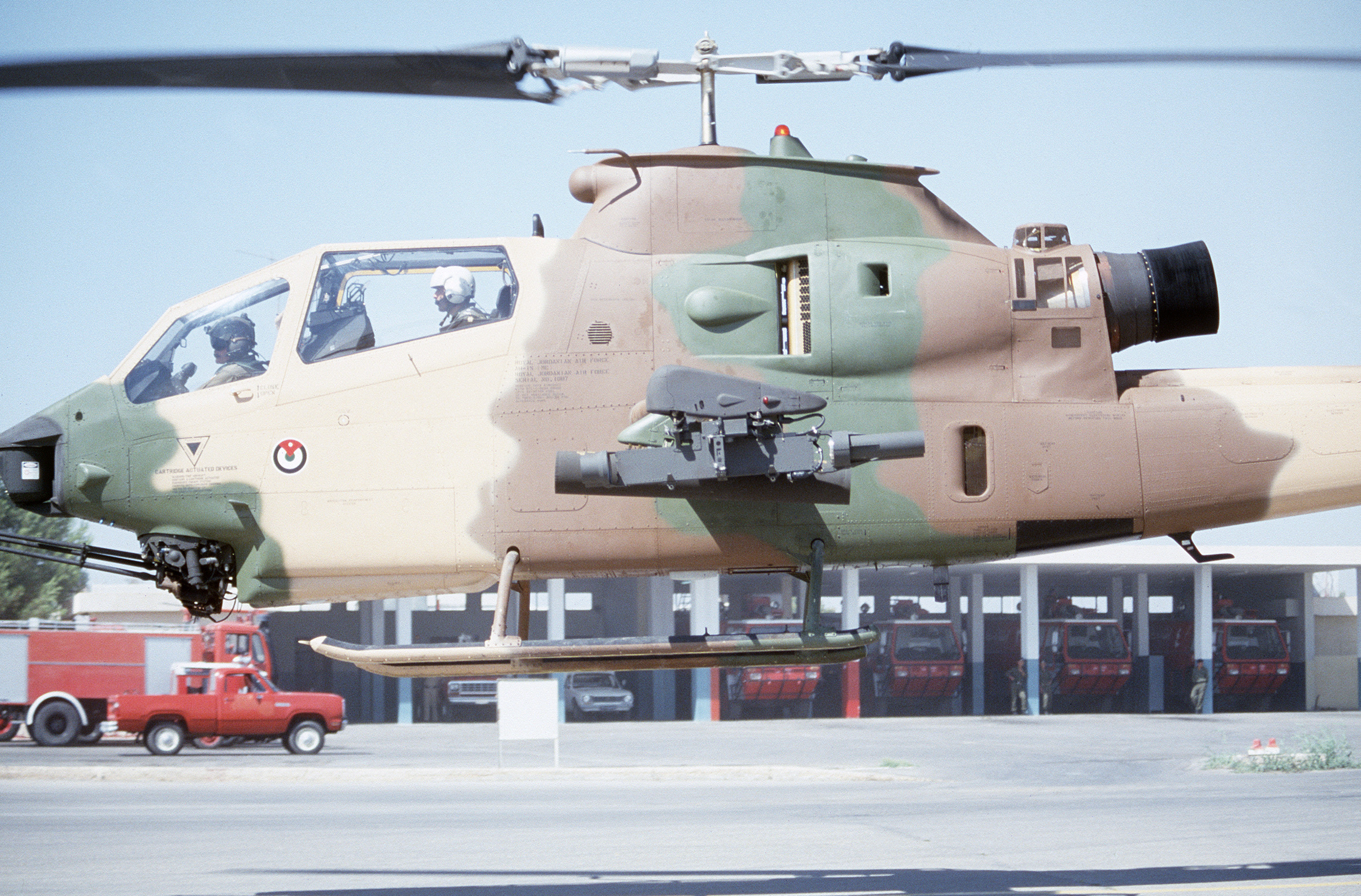 A Jordanian air force AH-1S Cobra helicopter hovers over the flight line during the multinational joint service Exercise BRIGHT STAR '85